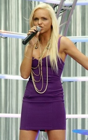 Candy Girl @ 46. KFPP in Opole.